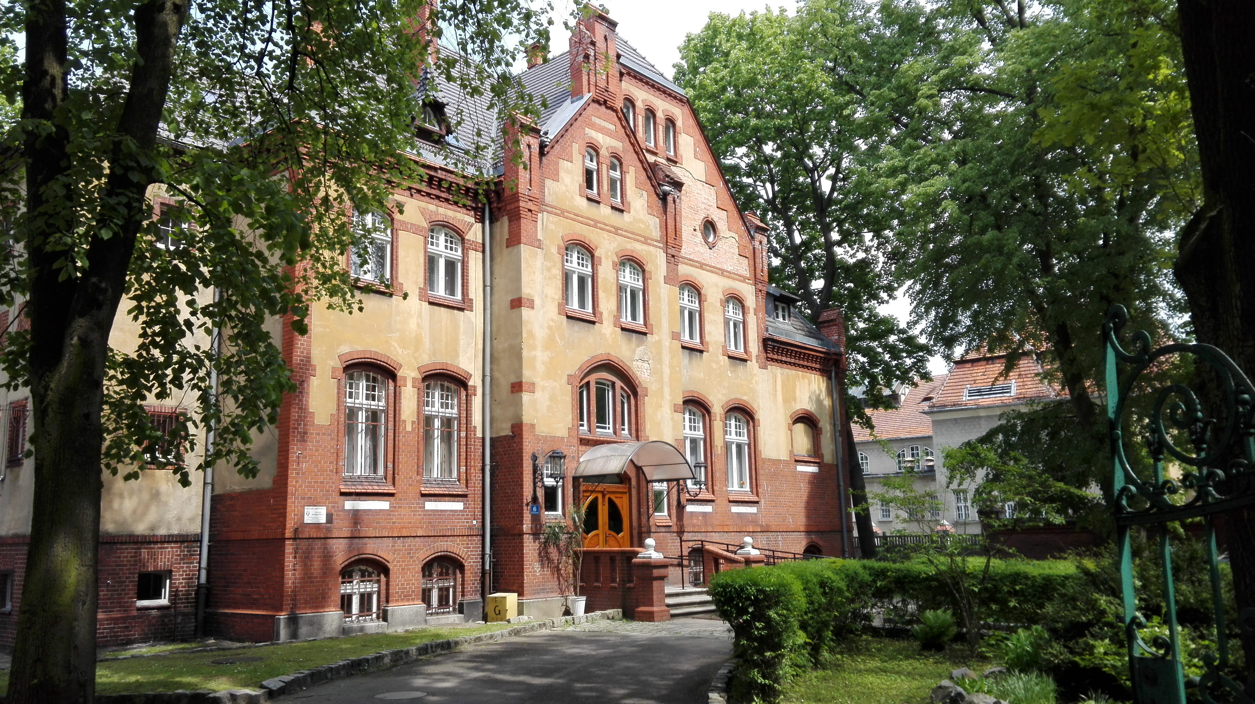 6 Parkowa Street in Prudnik